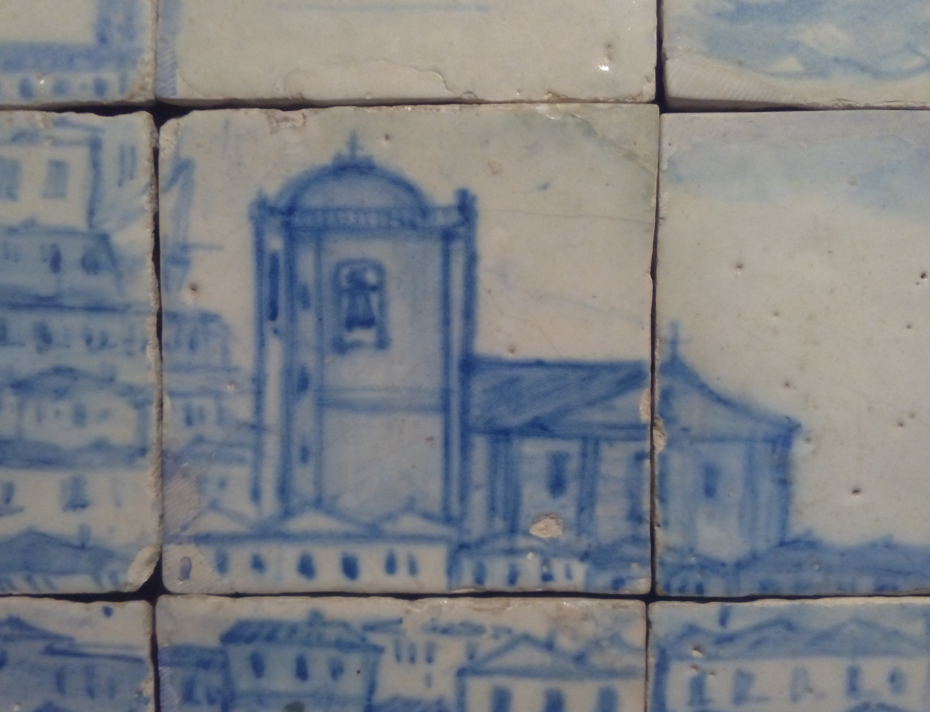 Depiction of the Church of Saint Roch (Igreja de São Roque), in Lisbon, in an early 18th-century tile panel depicting a view of city. Currently in the National Tile Museum (Museu Nacional do Azulejo), in Lisbon, Portugal.